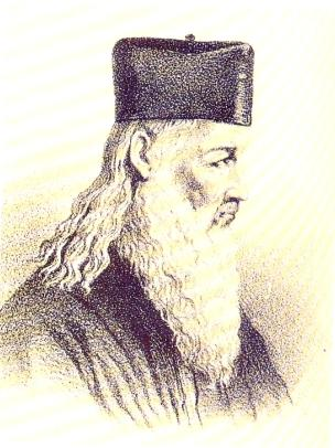 Portrait of Greek scholar Neophytos Doukas (1762-1845)